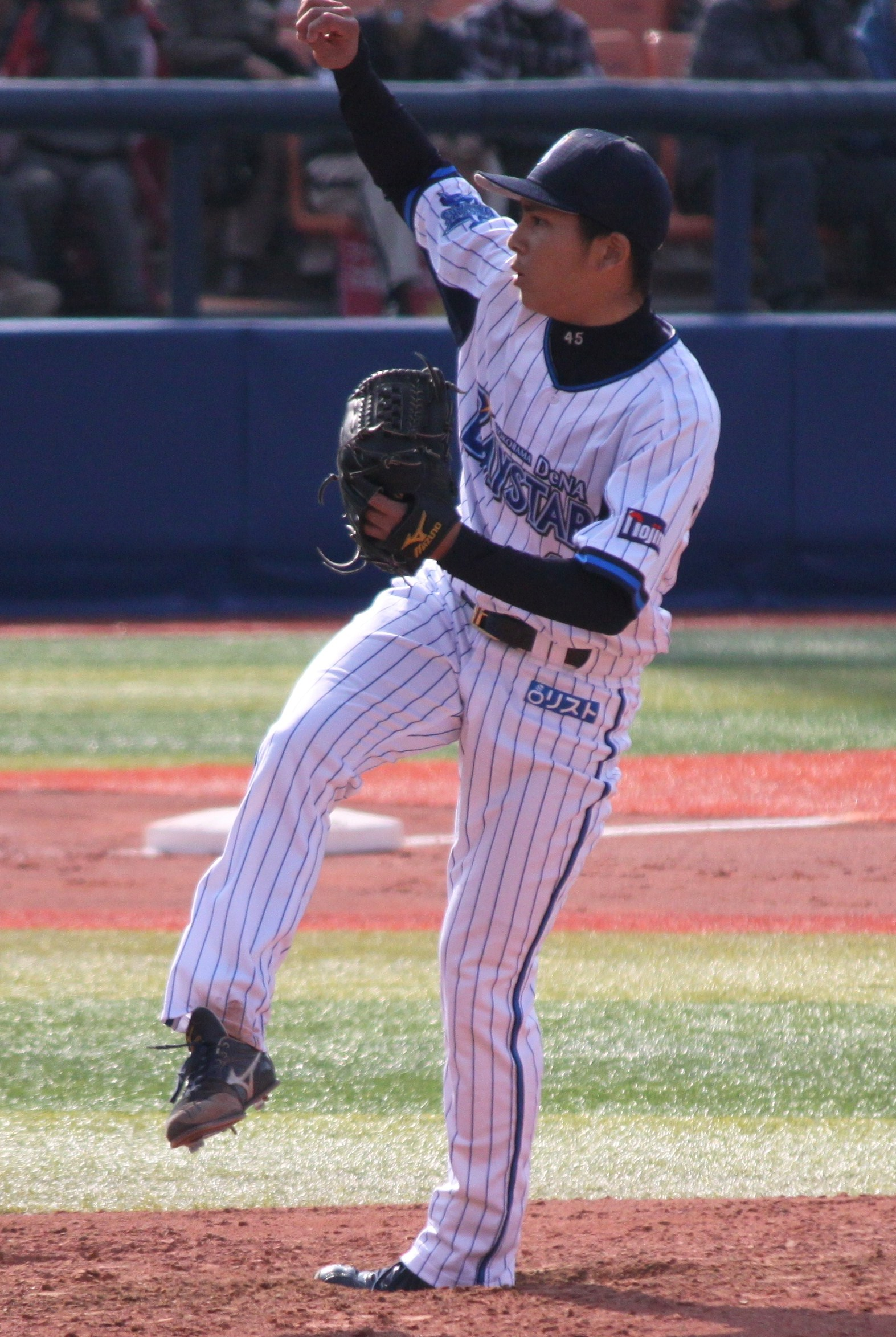 Hiroyuki Fukuyama, pitcher of the Yokohama DeNA BayStars, at Yokohama Stadium.